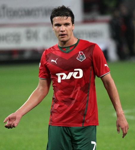 Sergei Tkachyov with FC Lokomotiv Moscow.